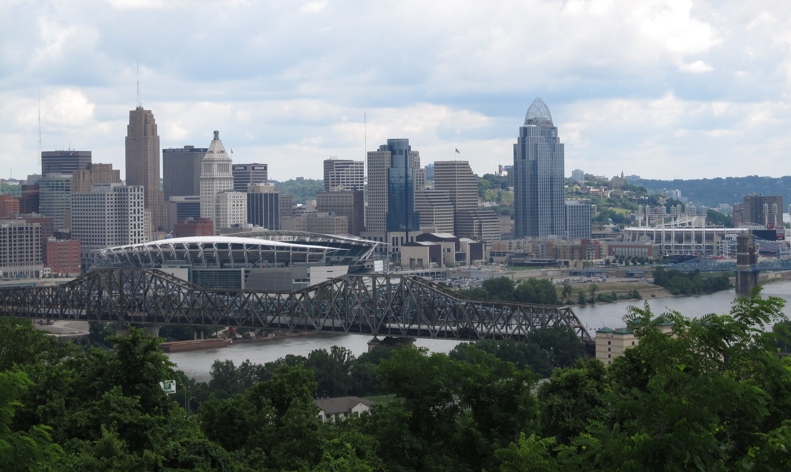 June 2013